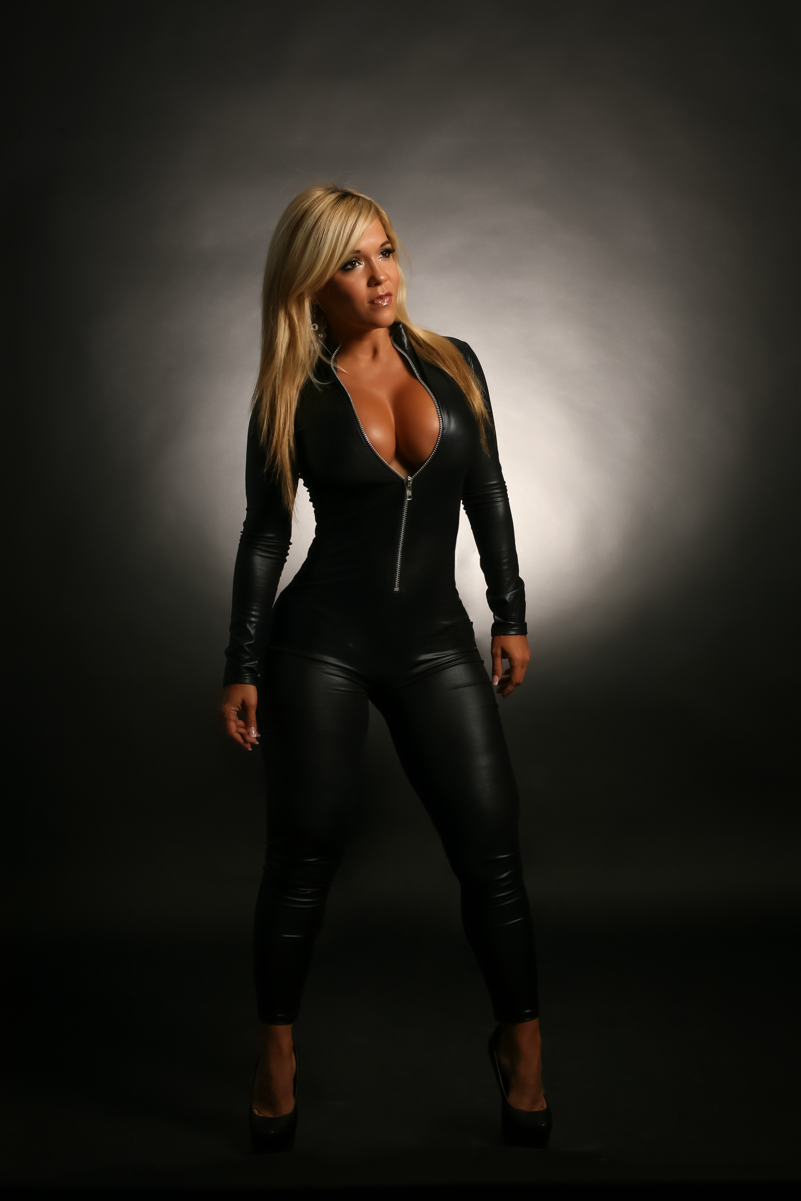 Fabiola Angulo (born 13 March 1977 in Maracaibo, Venezuela) is a Venezuelan TV host, model, and actress. She is currently working on a variety of TV Shows in "Wild On" on E Entertainment TV network in the United States.